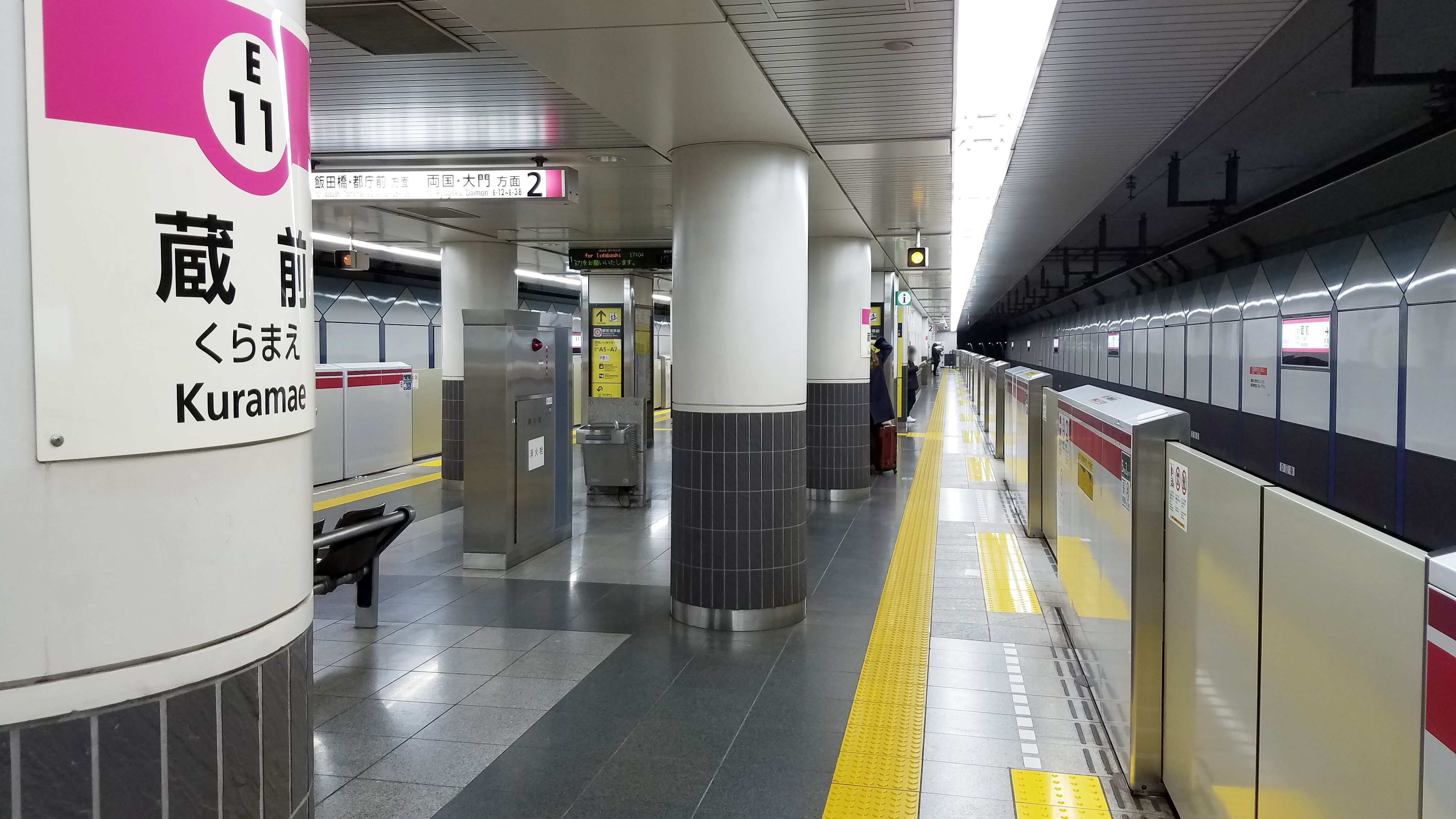 The platform at Kuramae Station on the Toei Ōedo Line in Taitō city, Tokyo, Japan